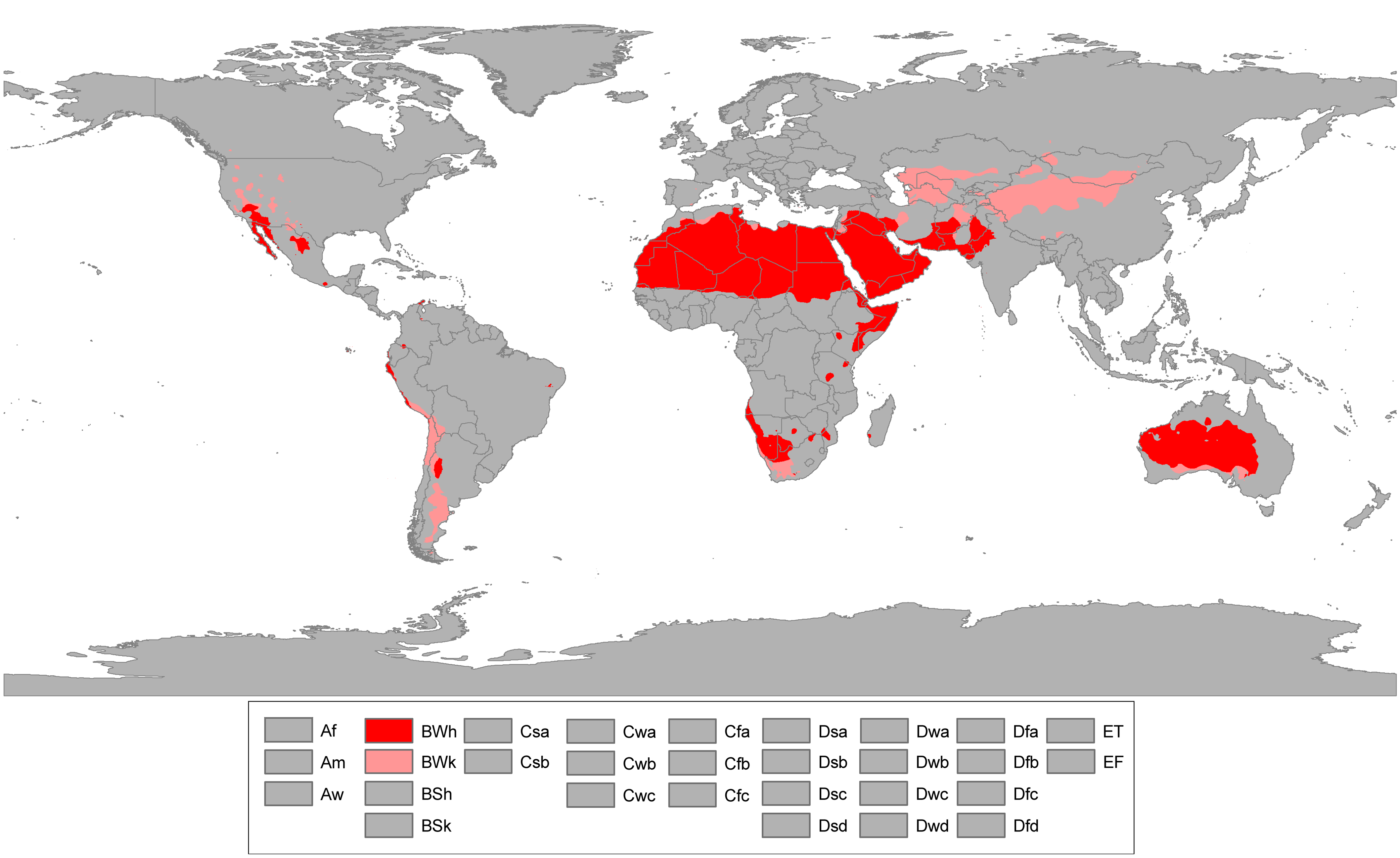 Updated world map of the Köppen-Geiger climate classification. Desert climate (BWh, BWk)